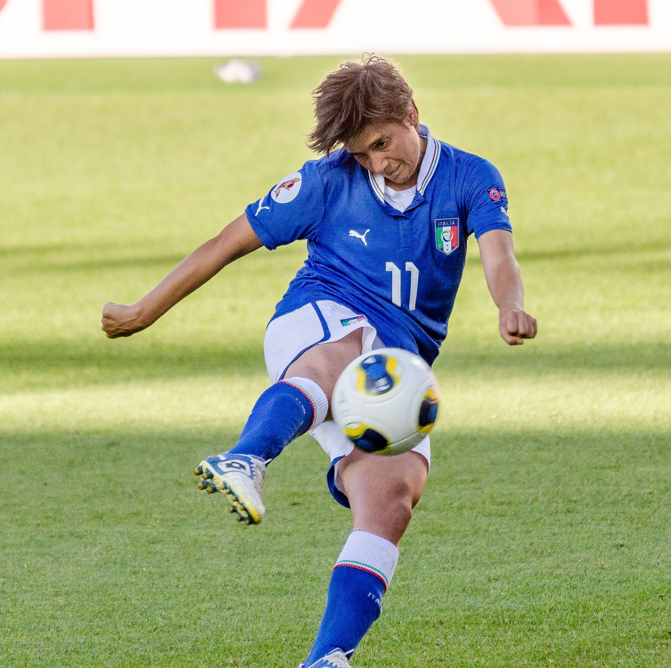 Italian football midfielder Alice Parisi playing the Quarter final against Germany in the UEFA Women's Euro 2013 at Myresjöhus Arena in Växjö.